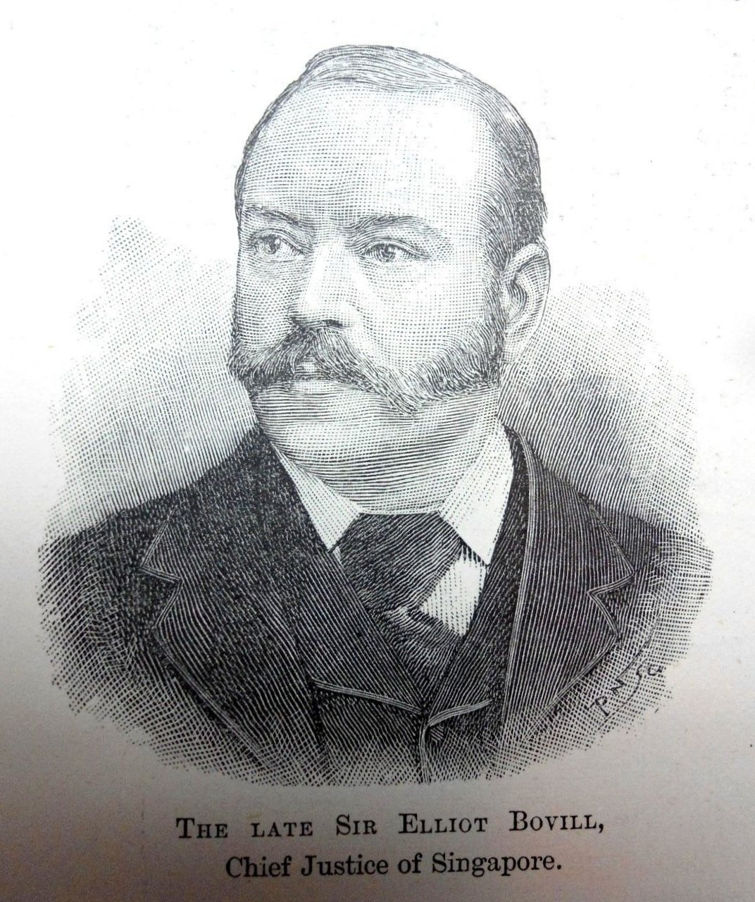 An engraving of Sir Elliot Charles Bovill (1848 – 24 March 1893), who served as Chief Justice of Cyprus and of the Straits Settlements.